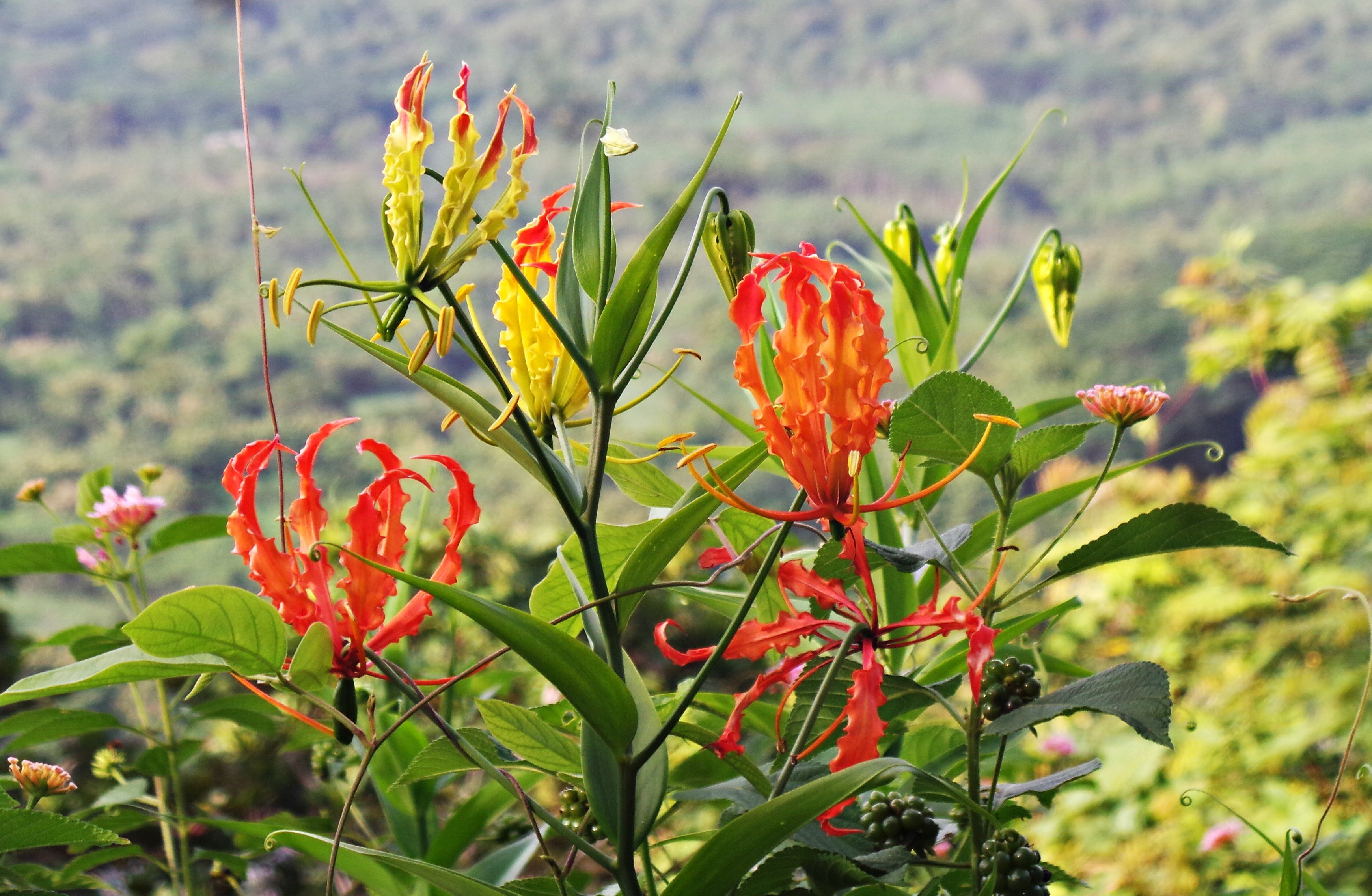 Kembang Sungsang (Glory Lily / Flame Lily) Latin : Gloriosa superba Tumbuh liar di Bukit Maskumambang, Kediri, Jawa Timur, Indonesia.